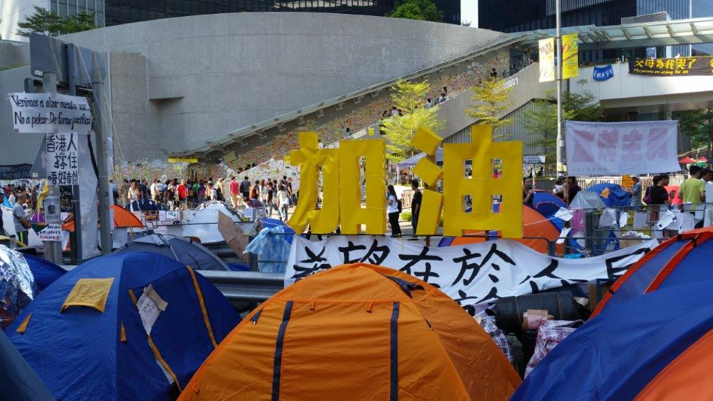 Protesters exhorted to increase determination, Occupy Central 18 October 2014